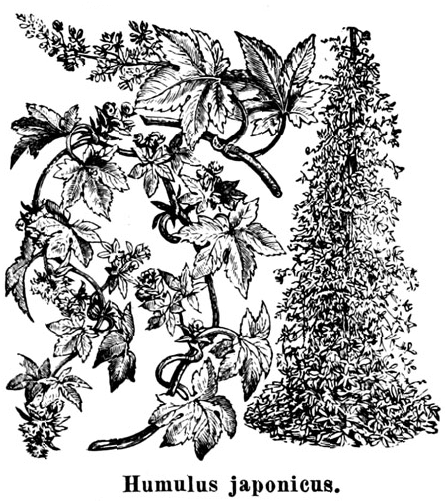 Japanese hop (Humulus japonicus)